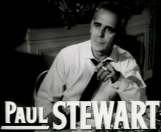 Cropped screenshot of Paul Stewart from the trailer for the film The Bad and the Beautiful.